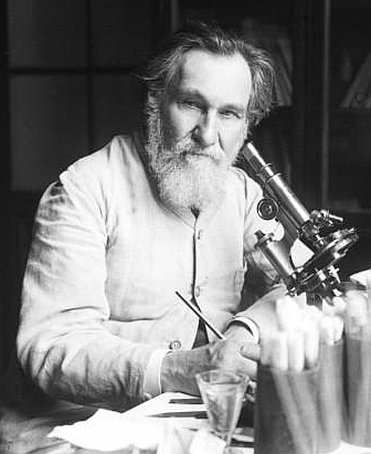 Russian microbiologist Ilya Ilyich Mechnikov (1845-1916